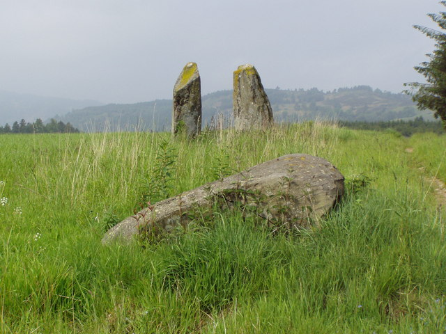 Cults Stone Row Row of three standing stones (one of which has fallen).